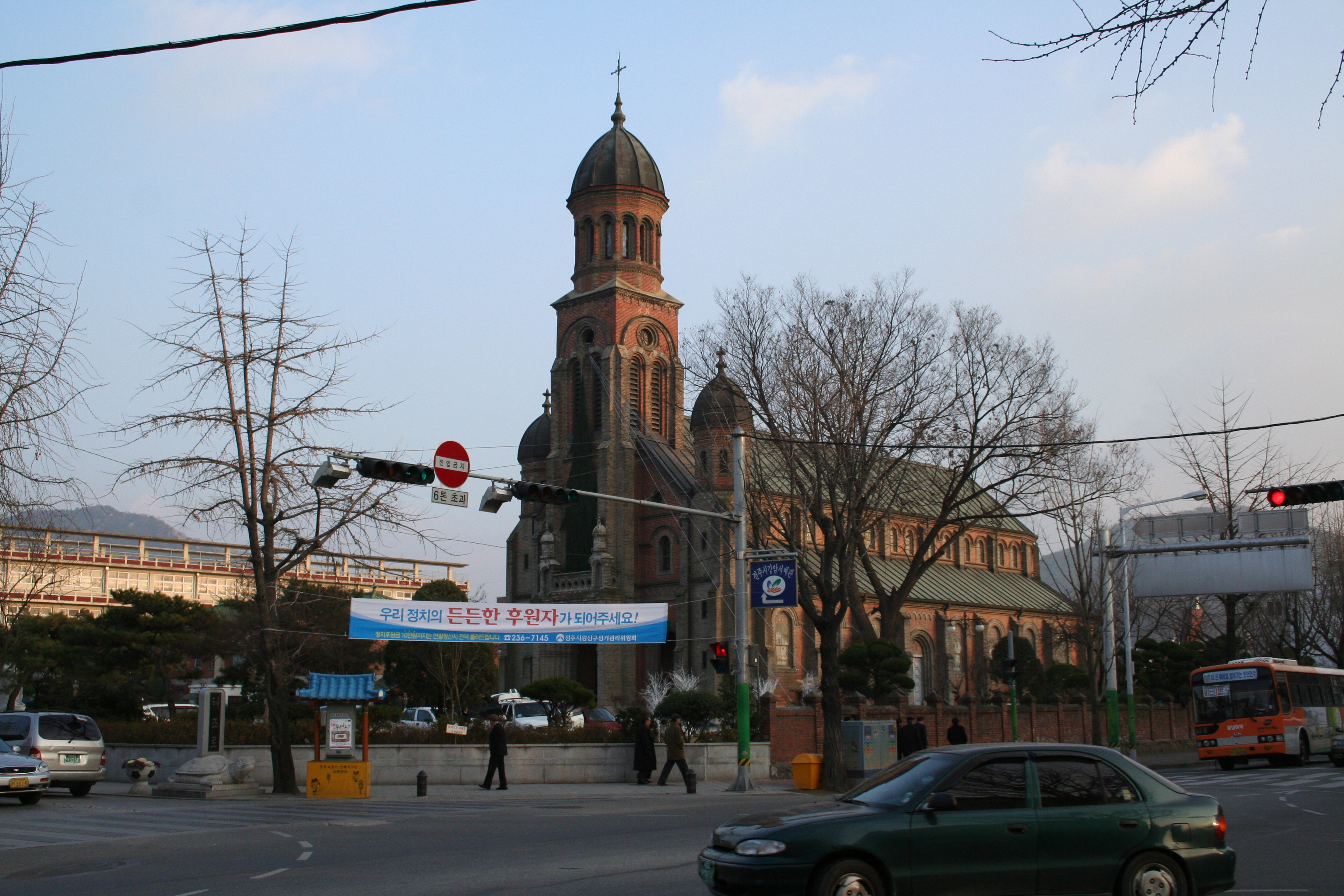 Jeondong Catholic Church, Jeonju, South Korea.